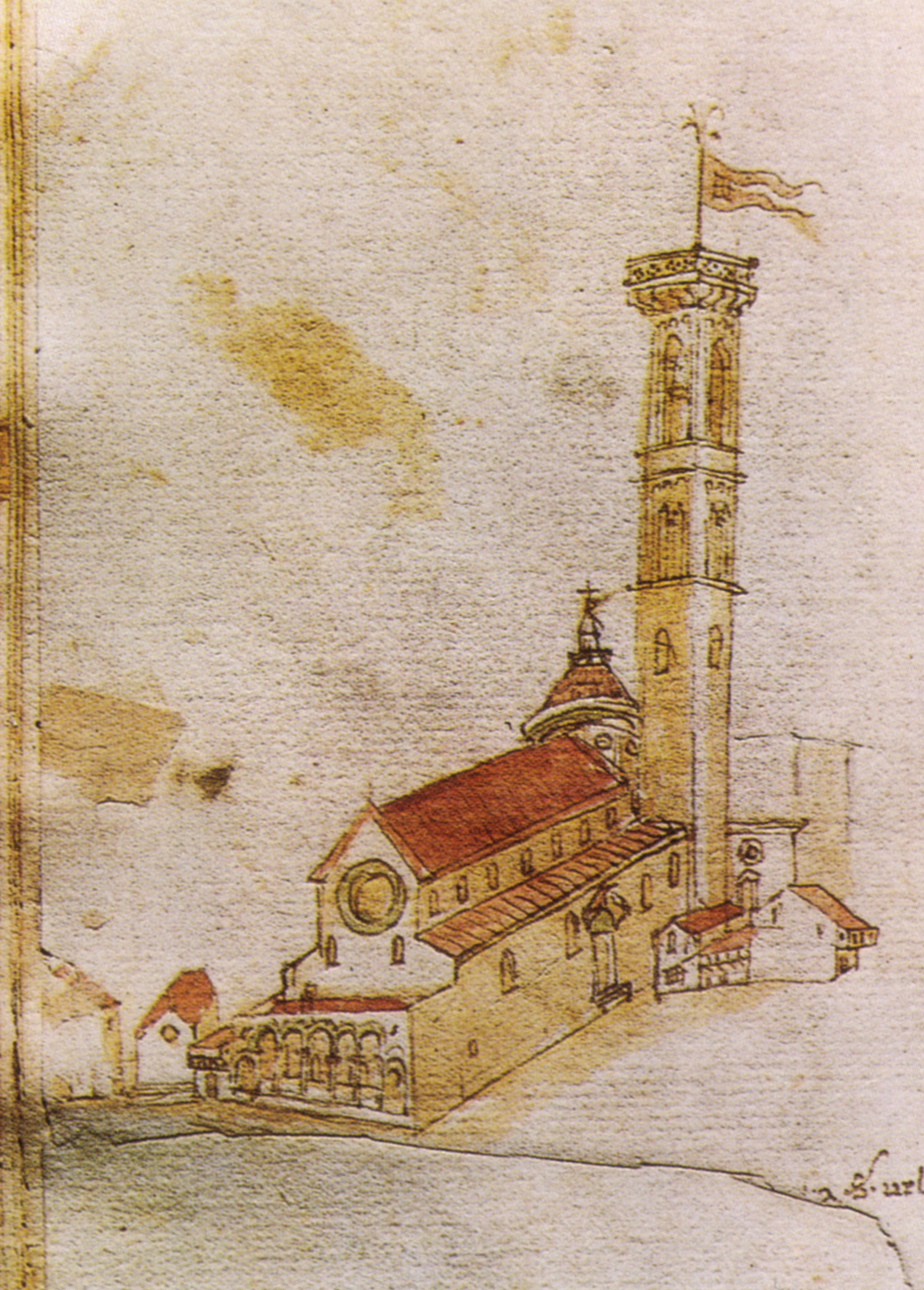 Depiction of San Lorenzo from the Codice Rustici (illuminated manuscript)